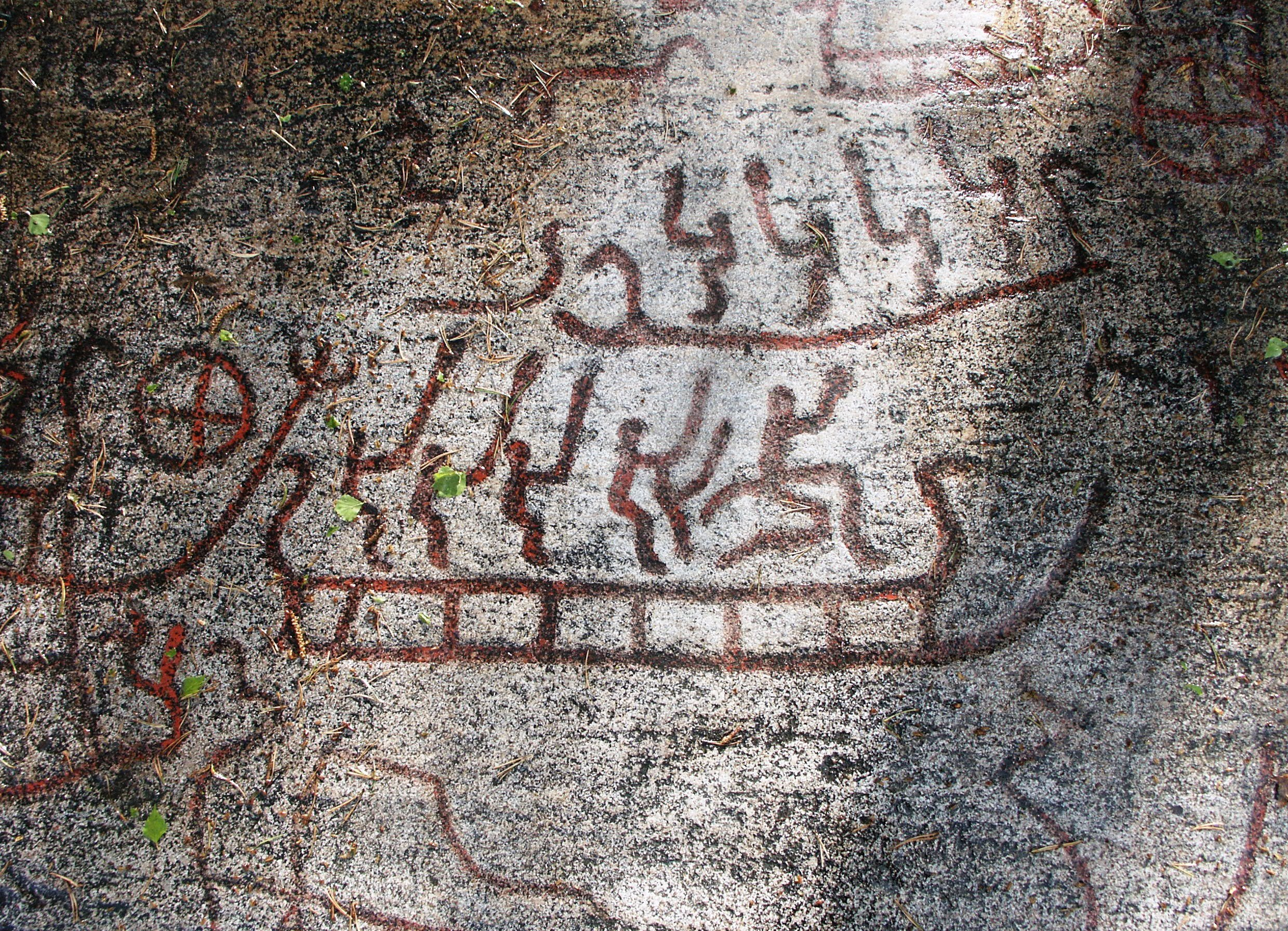 Rock carvings at Kalnes, Sarpsborg